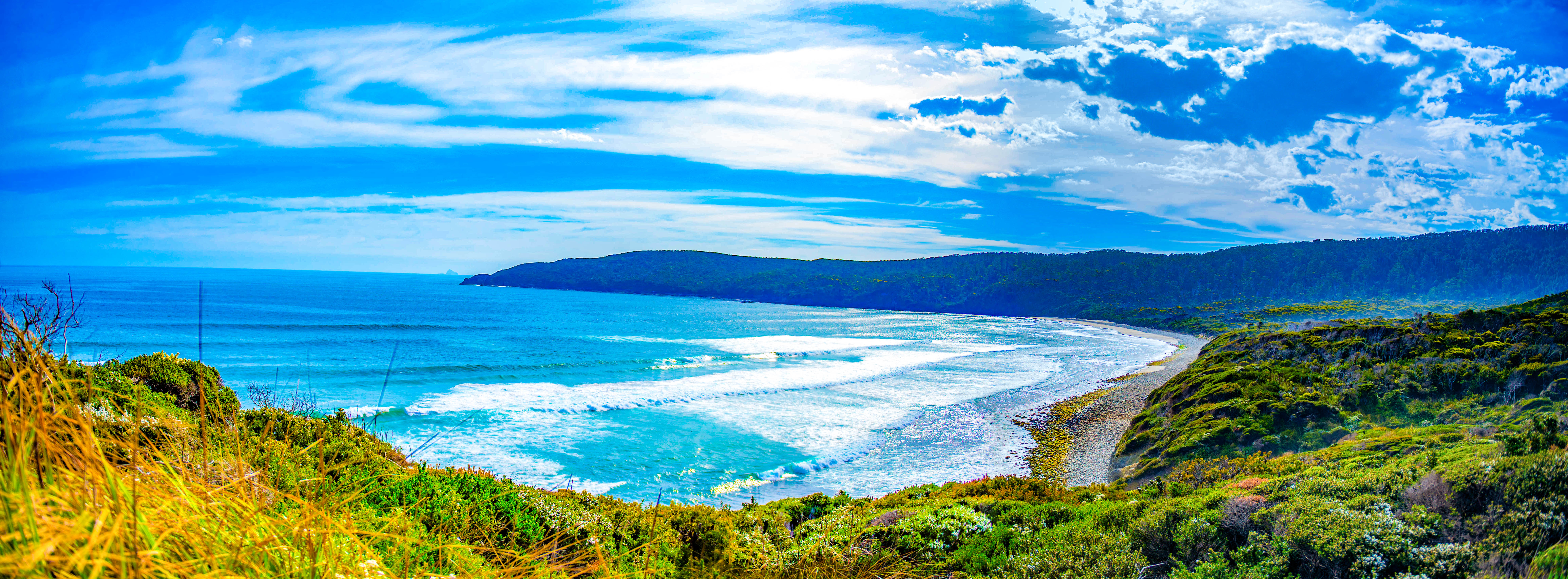 Panorama view of Granite beach on the South coast Track in Tasmania